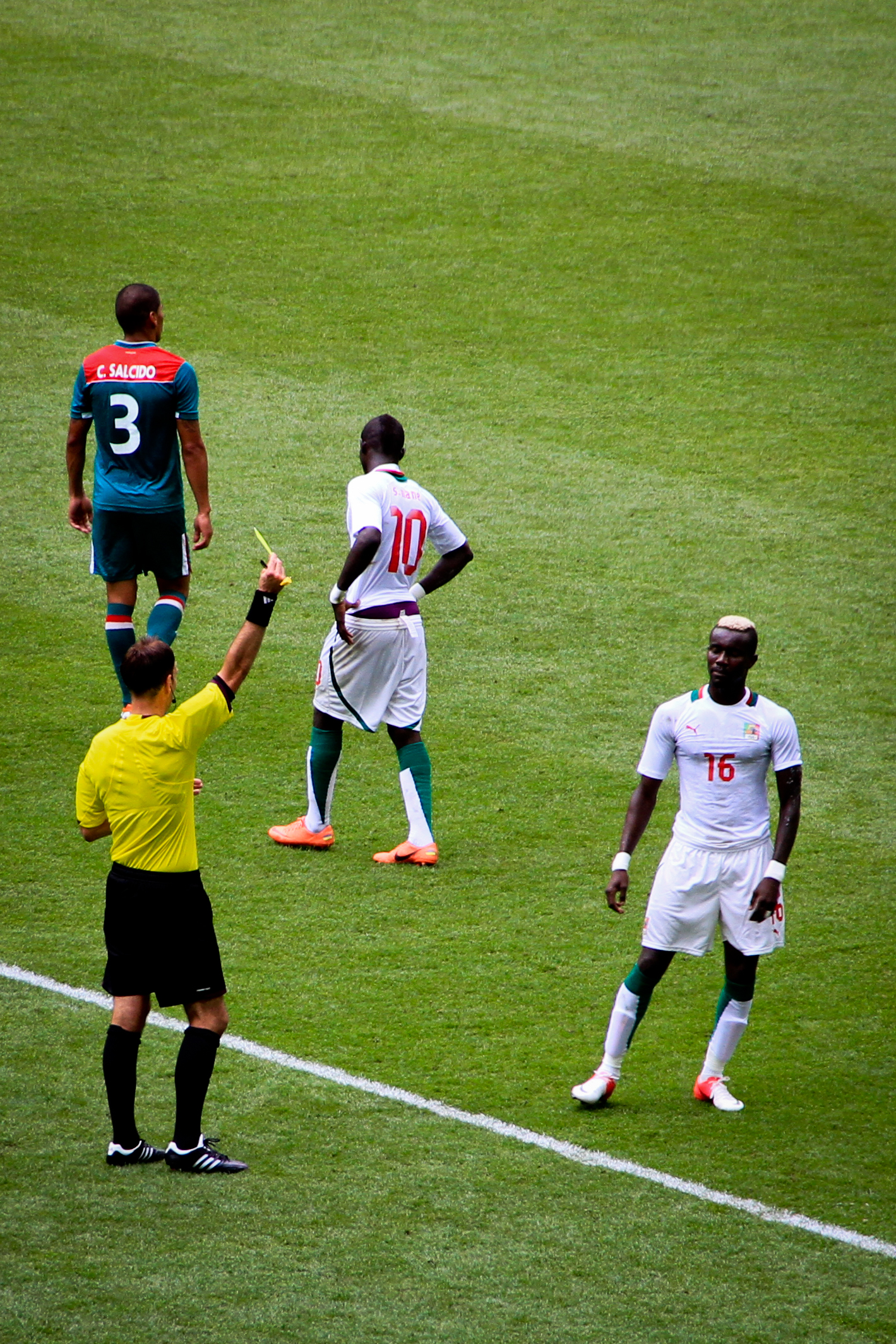 Pape Ndiaye Souaré of Senegal receives a yellow card.